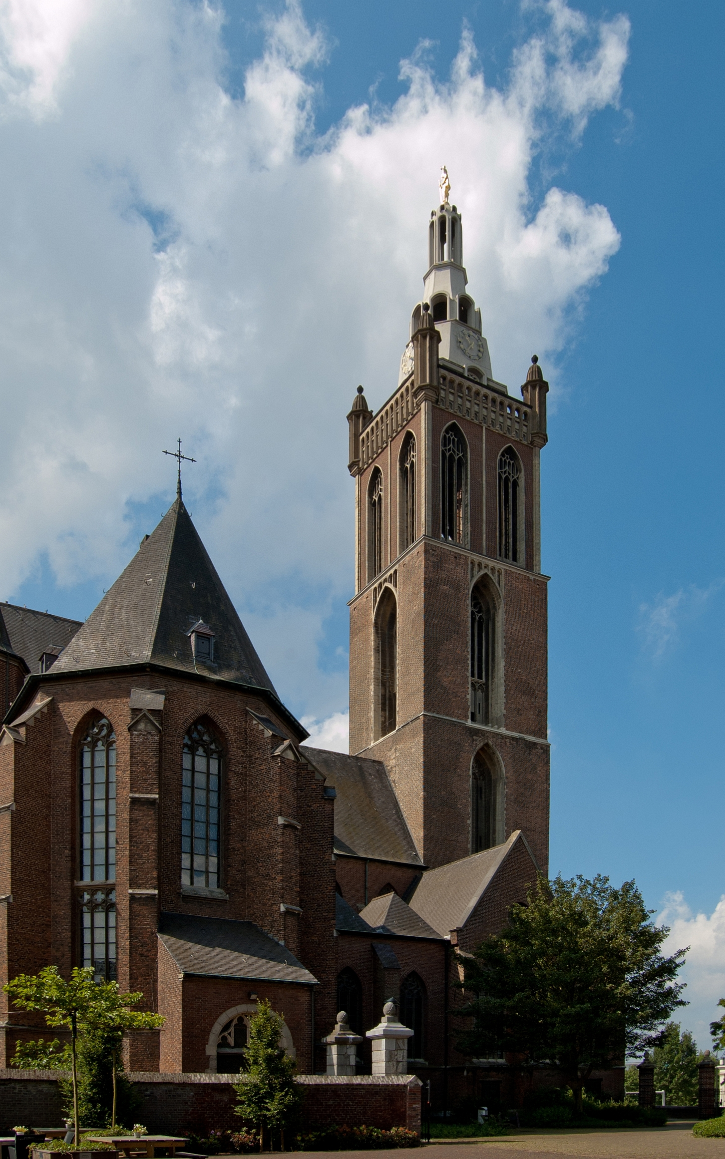 St. Christophorus-Cathedral, Roermond, Netherlands